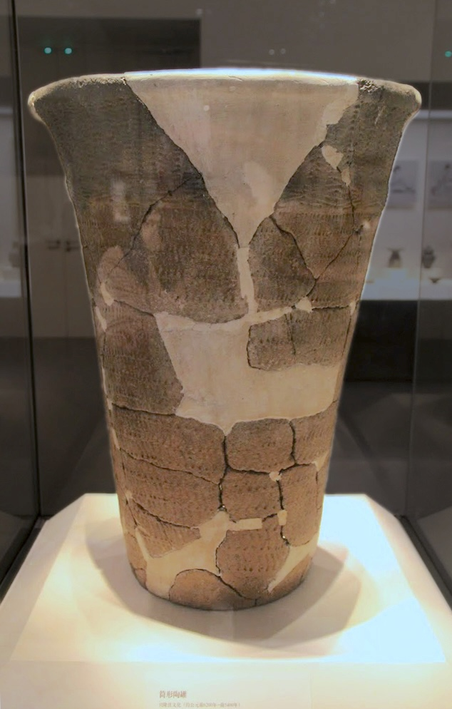 Neolithic pottery jar, Xinglongwa Culture, Liaoning, 1990. National Museum of Chinan, Beijing